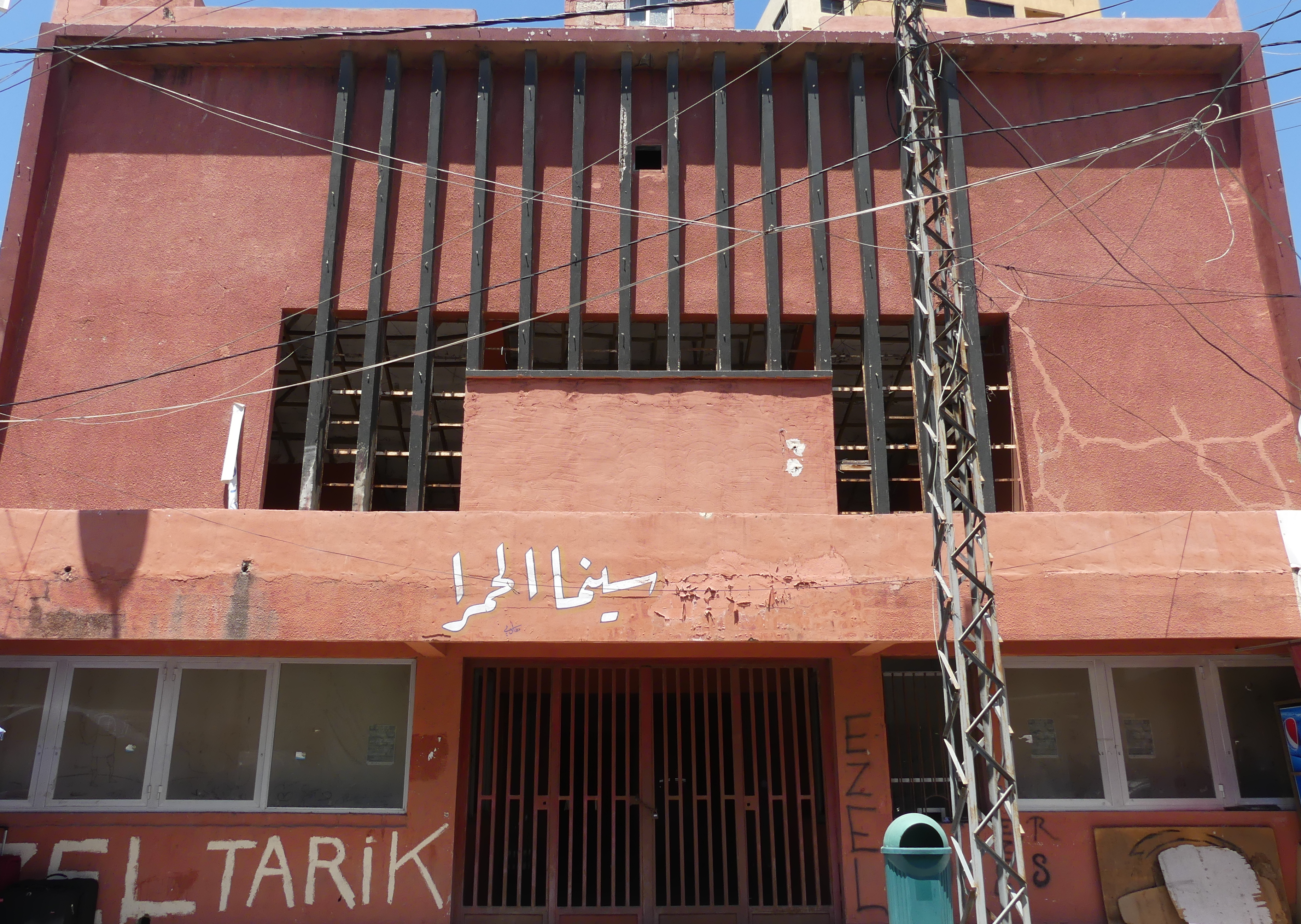 The defunct "Al Hamra Cinema" in the Hyram Street of the coastal city of Tyre/Sour, Southern Lebanon. It opened in the 1950s and was a venue for some of the Arab world's most famous performers, like Mahmoud Darwish, Sheikh Imam, Ahmed Fouad Negm, Wadih el-Safi, and Marcel Khalife. It closed down because of the Civil War in 1989, and was temporarily re-opened by the Istanbouli Theatre Company in 2014.